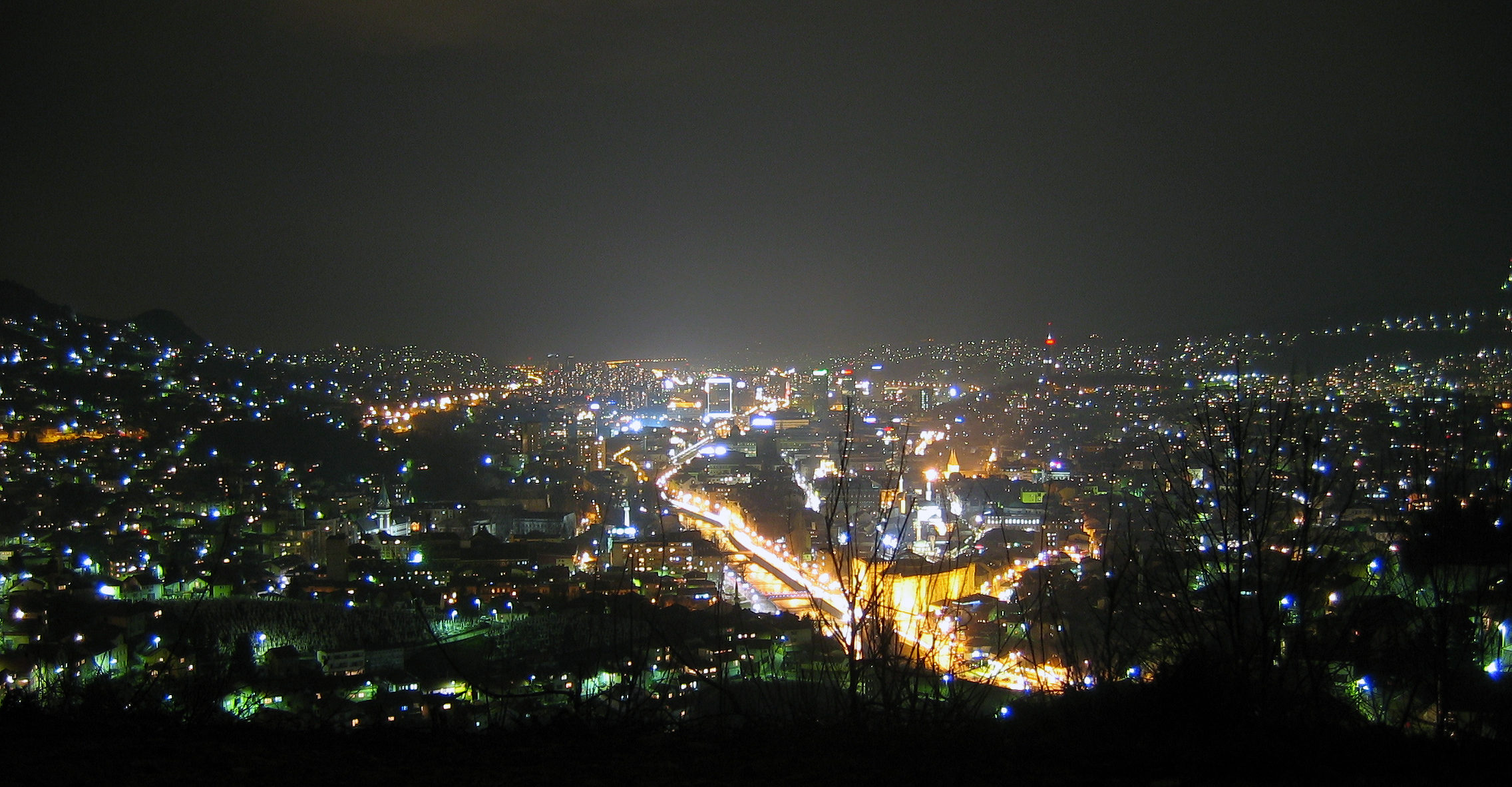 Sarajevo by night, photograph taken from Bijela Tabija